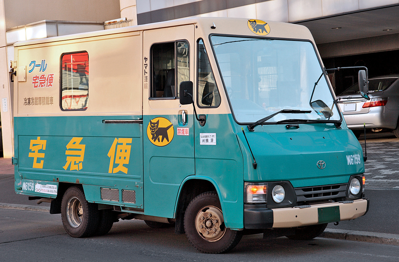 Toyota Quick Delivery 200